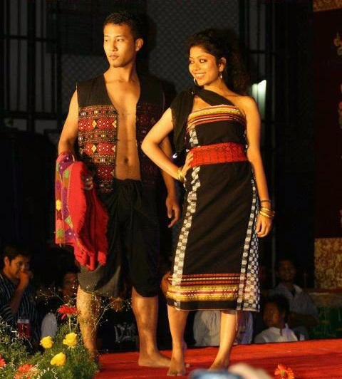 A Thadou couple in Traditional dress (Saipikhup and Khamtang)